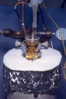 Americium in its oxidation state IV in 2M Na2CO3